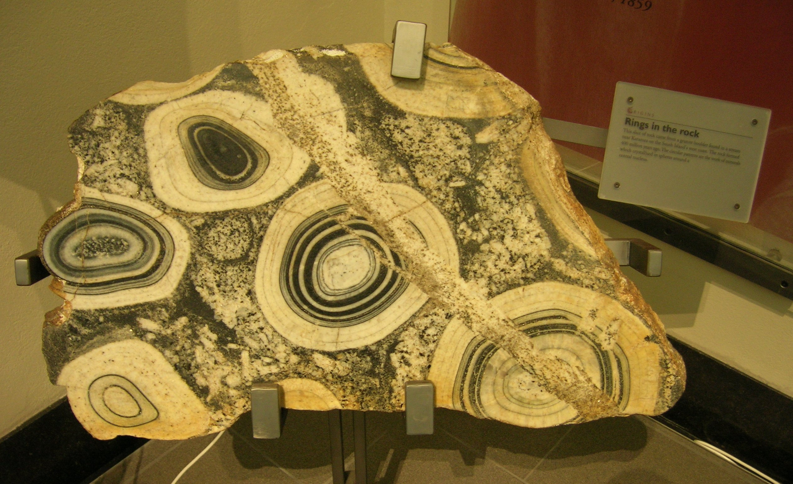 Rings in the Rock This slice of rock came from a granite boulder found in a stream near Karamea South Island [New Zealand] west coast. The rock formed 400 million years ago. The circular patterns are the work of minerals which crystallized in spheres around a central nucleus. This really amazed me. A few years later, I started reading The Process of Creating Life you see this pattern recurring in nature. THis also reminds me of the Belousov-Zhabotinsky reaction non-equilibrium thermodynamics, resulting in the establishment of a nonlinear chemical oscillator reaction And more recently, pictoscribe turned me on to Li , Dynamic Forms in Nature by David Wade Updated the title from: Concentric Circular pattern in granite to: Orbicular Granite Interesting site on orbicular rocks Seen from this orbicular rock photo by Flickr member subarcticmike Auckland War Memorial Museum i102505 115